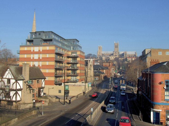 The A15, Lincoln Looking from the footbridge across the dual carriageway, to the Cathedral. The modern building on the left has just been built. When the previous block was razed to the ground I missed the opportunity to photograph the Church of St Swithin, which is hidden to the rear.